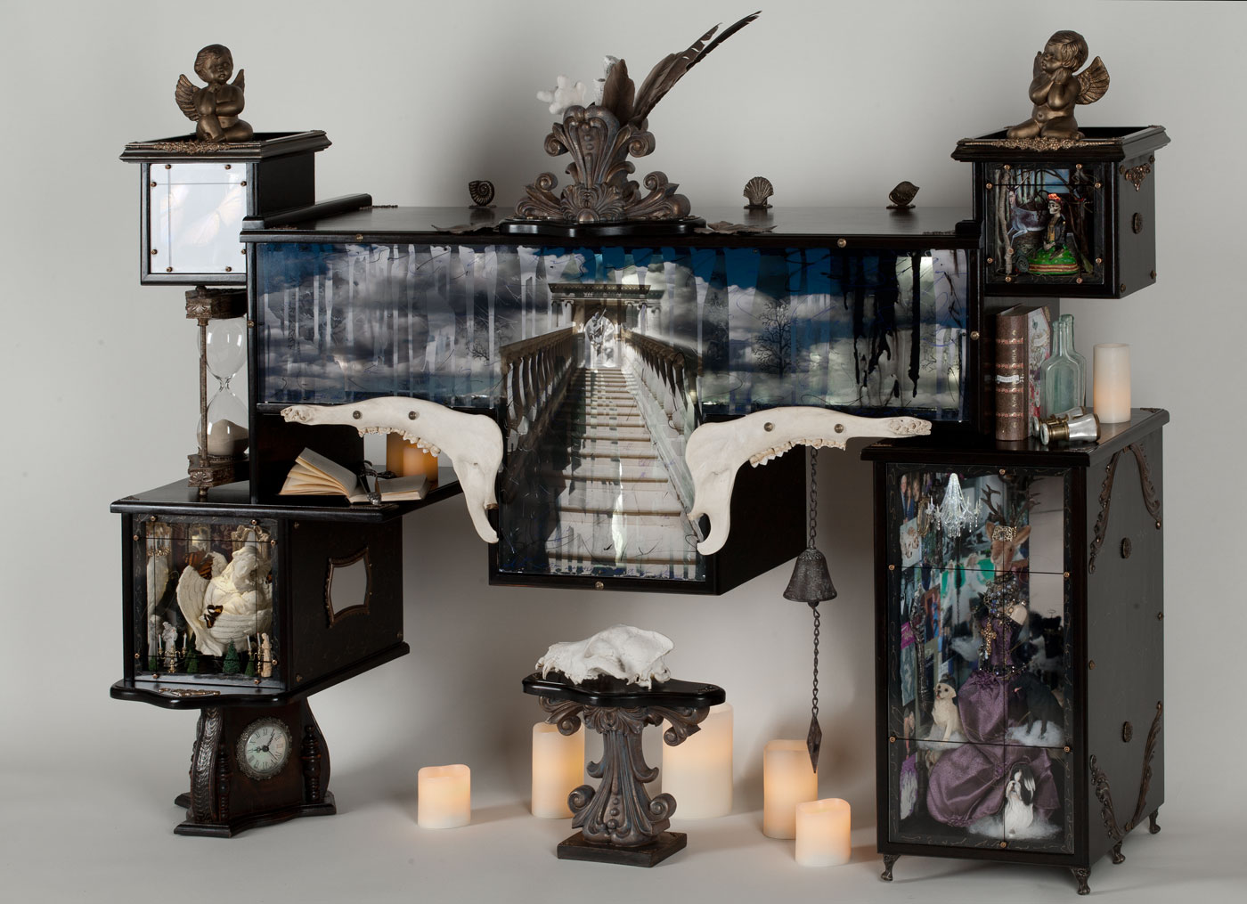 Carolyn Farb Commission, 2015, Cherished Echoes from Afar, 36h x 59w x 18d inches by Ingrid Dee Magidson, layered mixed media, acrylic, wood, antique objects and butterflies.